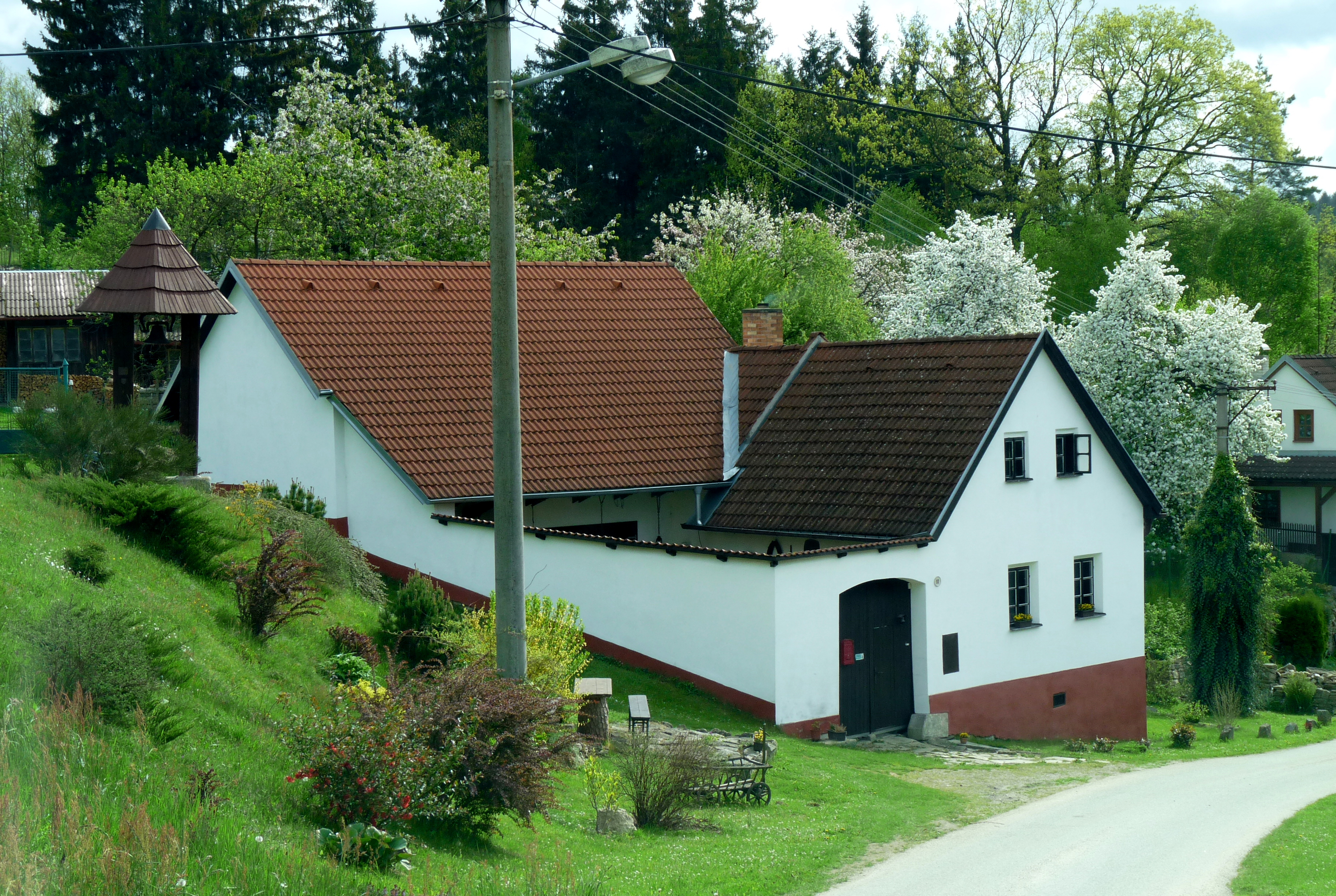 House No 11 in the village of Dvoreček, Jindřichův Hradec District, South Bohemia, Czech Republic.